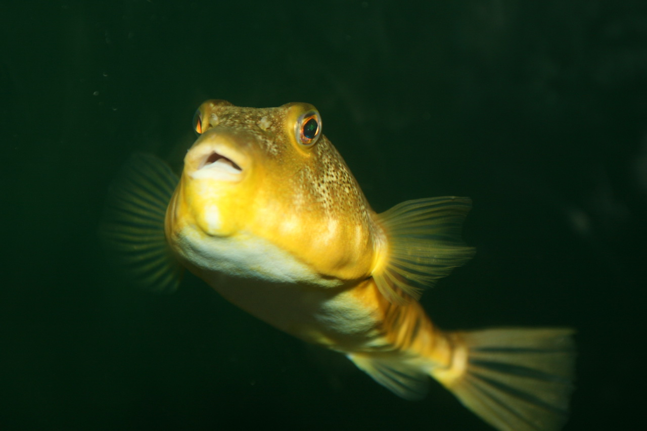 Northern puffer in aquarium